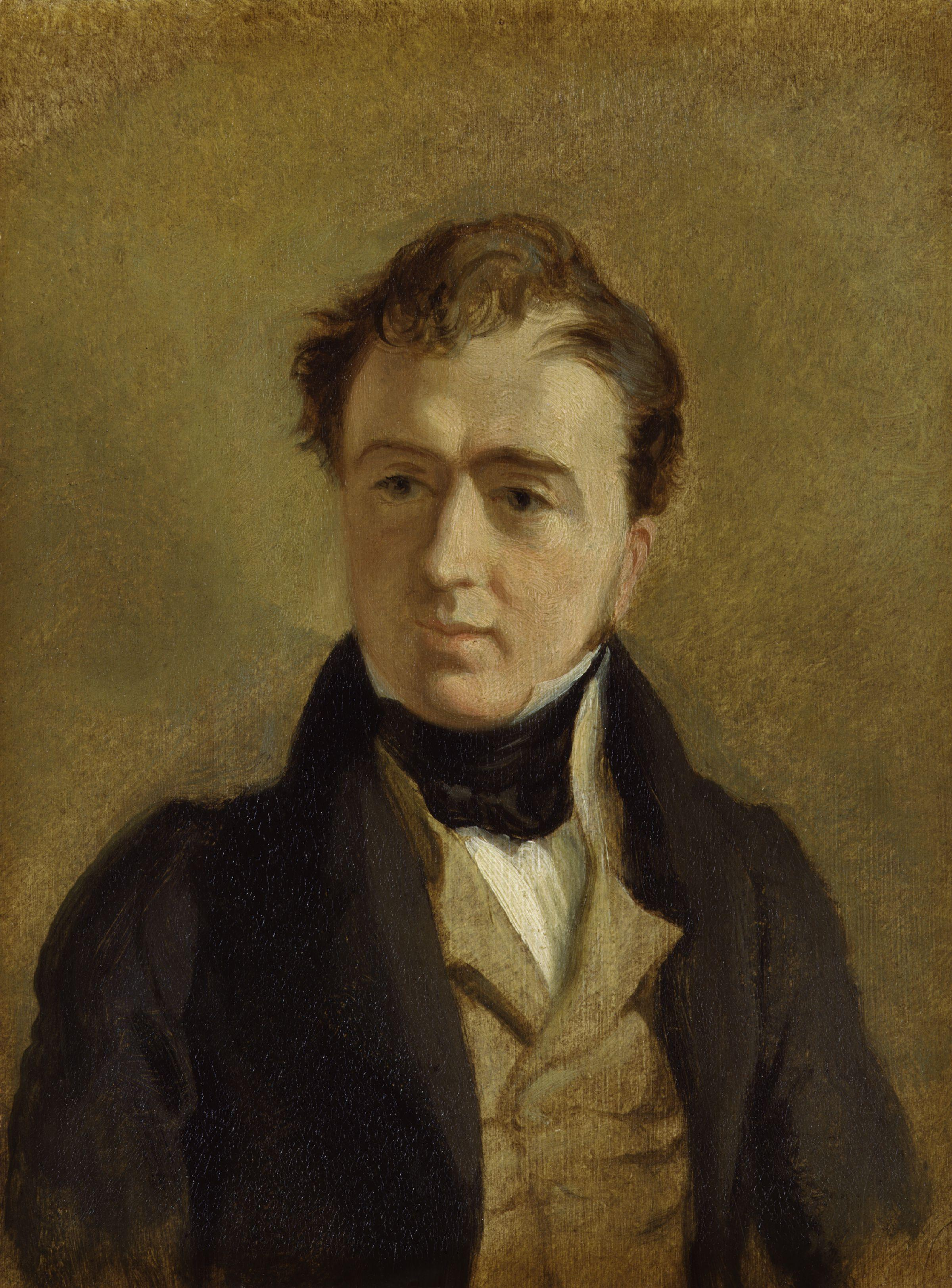 Francis Baring, 1st Baron Northbrook, by Sir George Hayter (died 1871), given to the National Portrait Gallery, London in 1900. All images in this batch have been confirmed as author died before 1939 according to the official death date listed by the NPG.